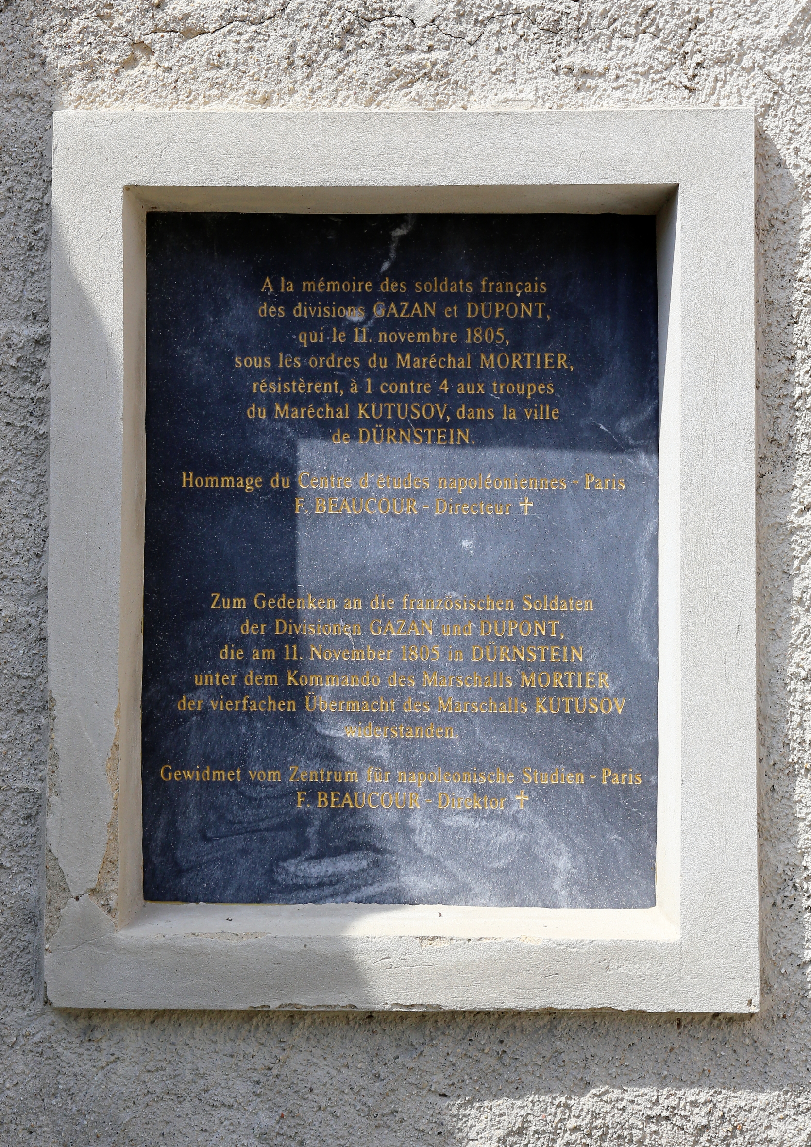 Plague in Durnstein village, Austria, commemorating the 1805 Battle of Durnstein between the French and a Austrian/Russian army